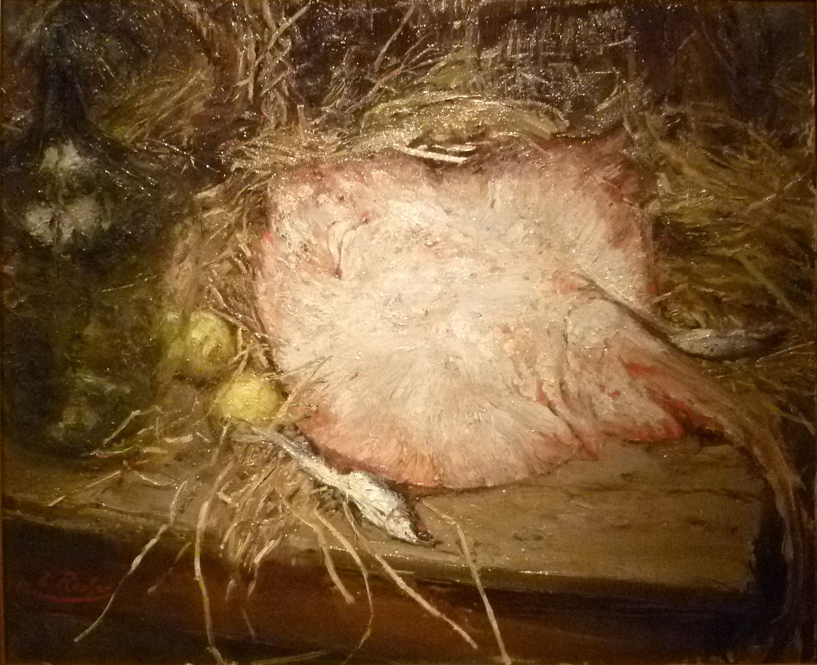 "The Skate", oil on canvas (87 x 106 cm) by the Belgian painter Ernest Rocher (1872-1938); private collection